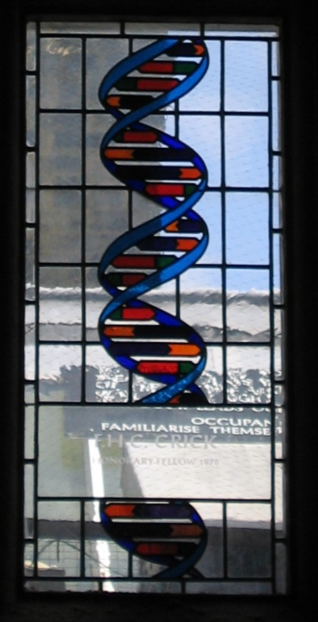 Stained glass window in the dining hall of Gonville and Caius College, in Cambridge (UK), commemorating Francis Crick, who co-discovered the molecular structure of DNA, received a Nobel Prize and was an honorary fellow of the college. The window represents a double helix; the text on the windows reads: F.H.C. CRICK, HONORARY FELLOW 1976.